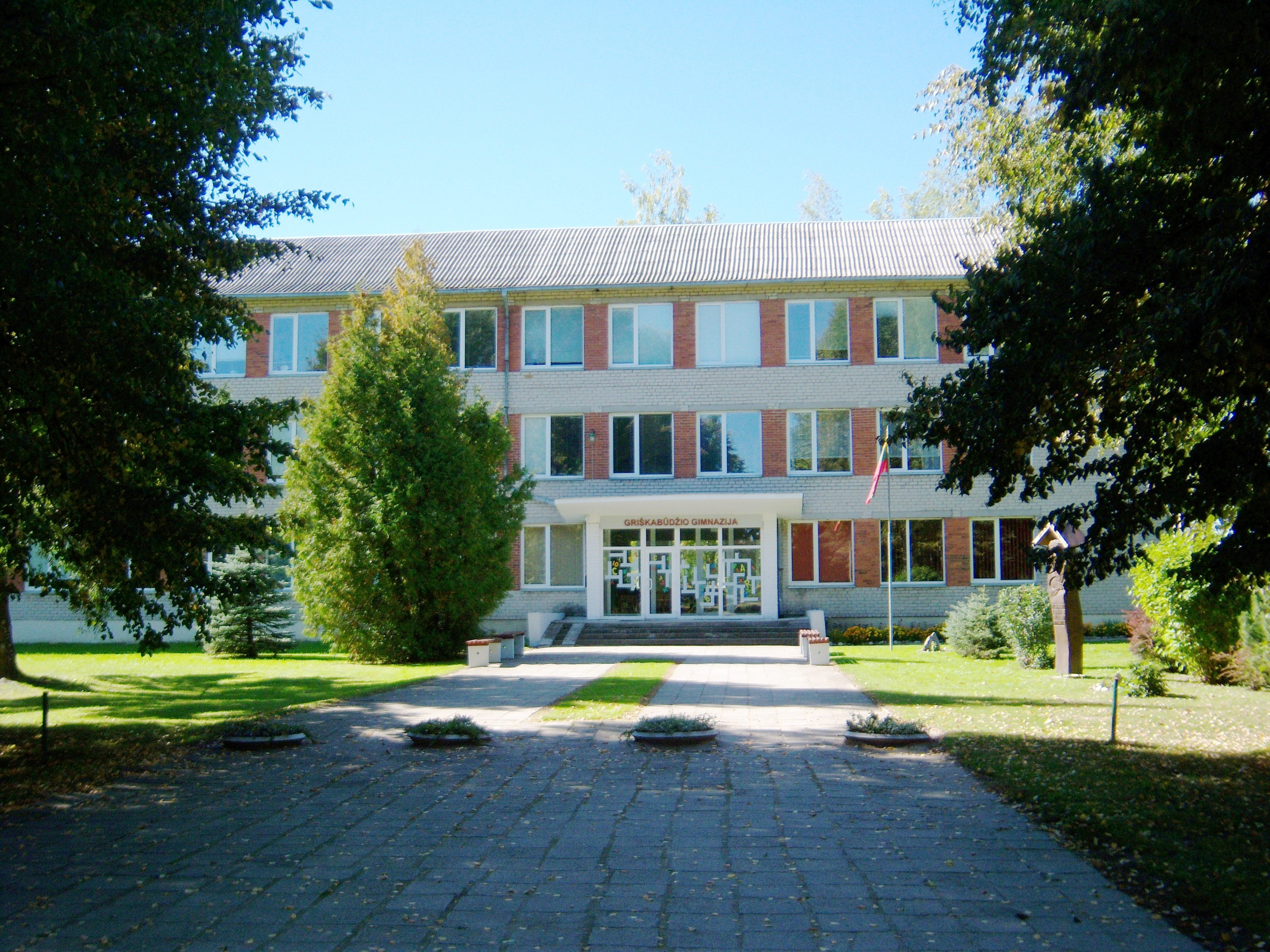 Gymnasium in Griškabūdis, Šakiai District, Lithuania